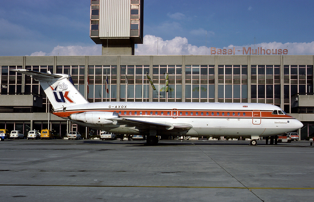 Air UK BAC 111-432FD One-Eleven G-AXOX at Euroairport